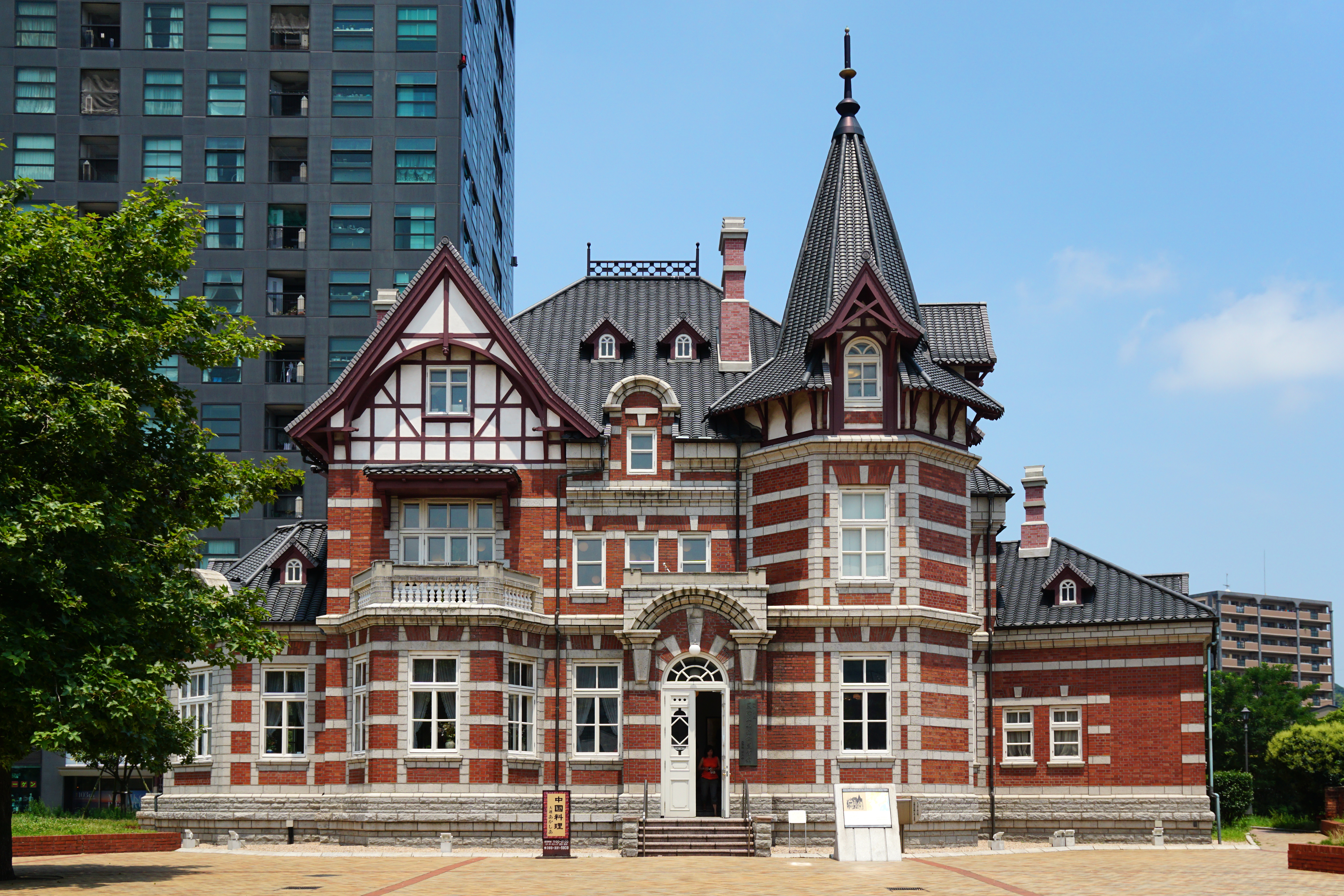 Kitakyushu International Commemorative Library in Kitakyushu, Fukuoka prefecture, Japan.